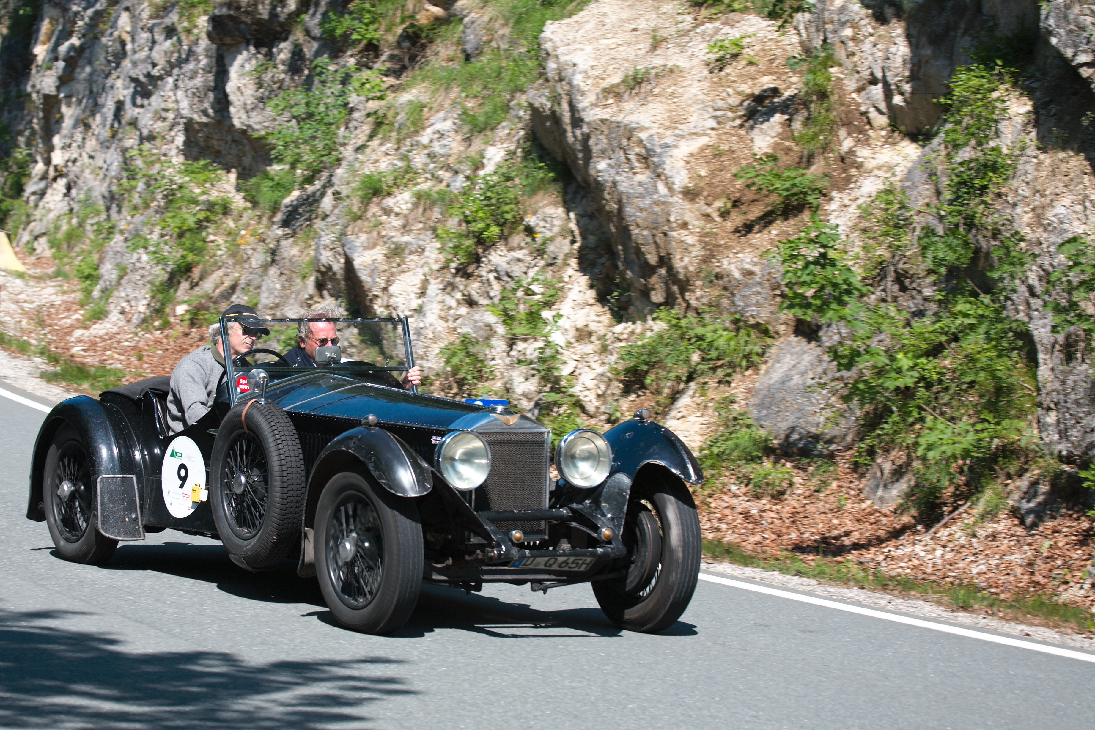 1930 Invicta S Type low chassis at Gaisbergrennen 2009